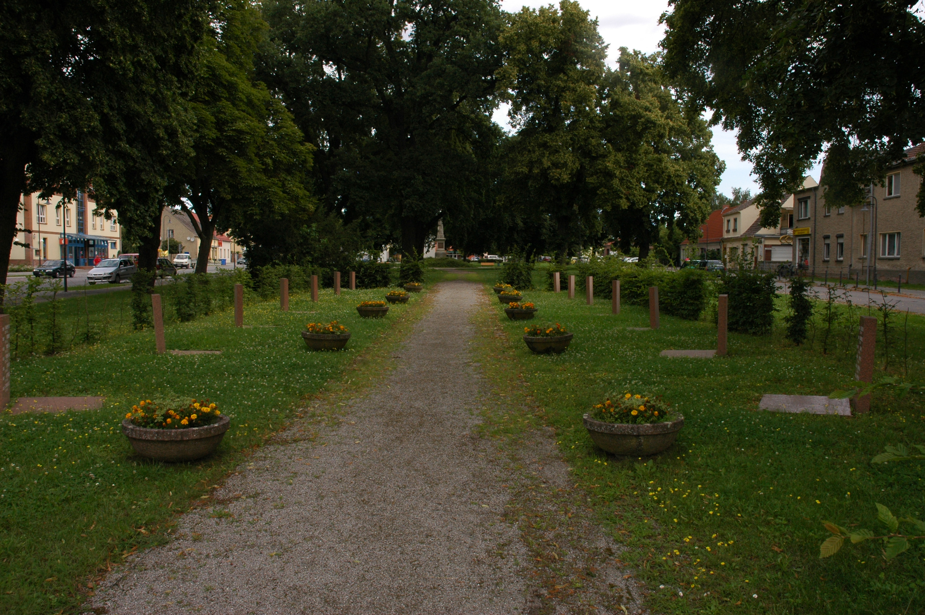 Soviet war cemetery in Letschin, East Germany